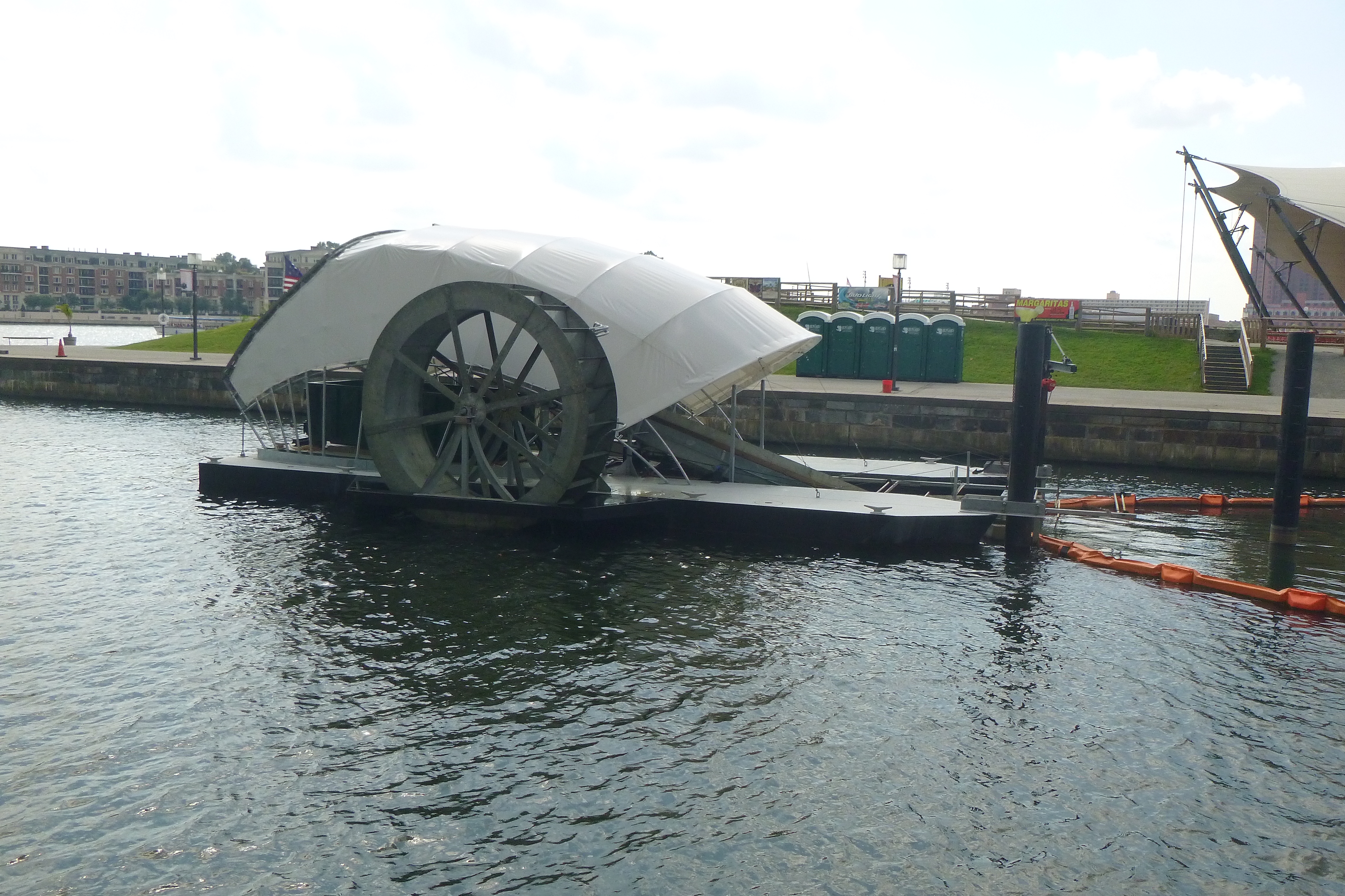 Trash Wheel in Baltimore